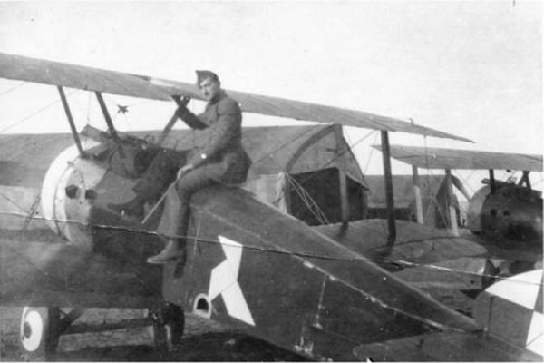 This Sopwith F.1 Camel of n° 11 Squadron (White Cocotte) was flown by Adj. Léon Cremers of the Aviation Militaire Belge